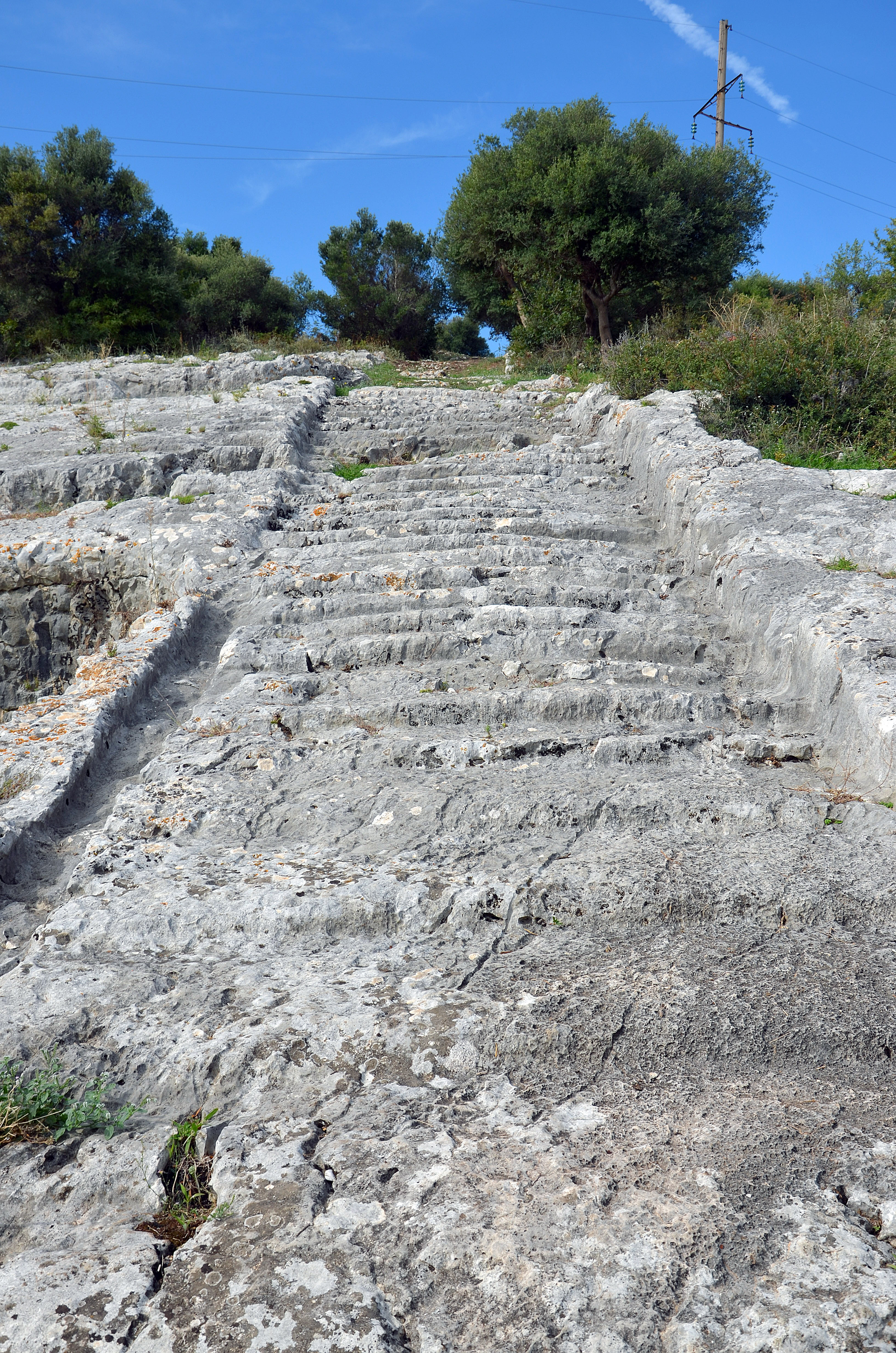 Stairway to the Acropolis excavated in Oricum